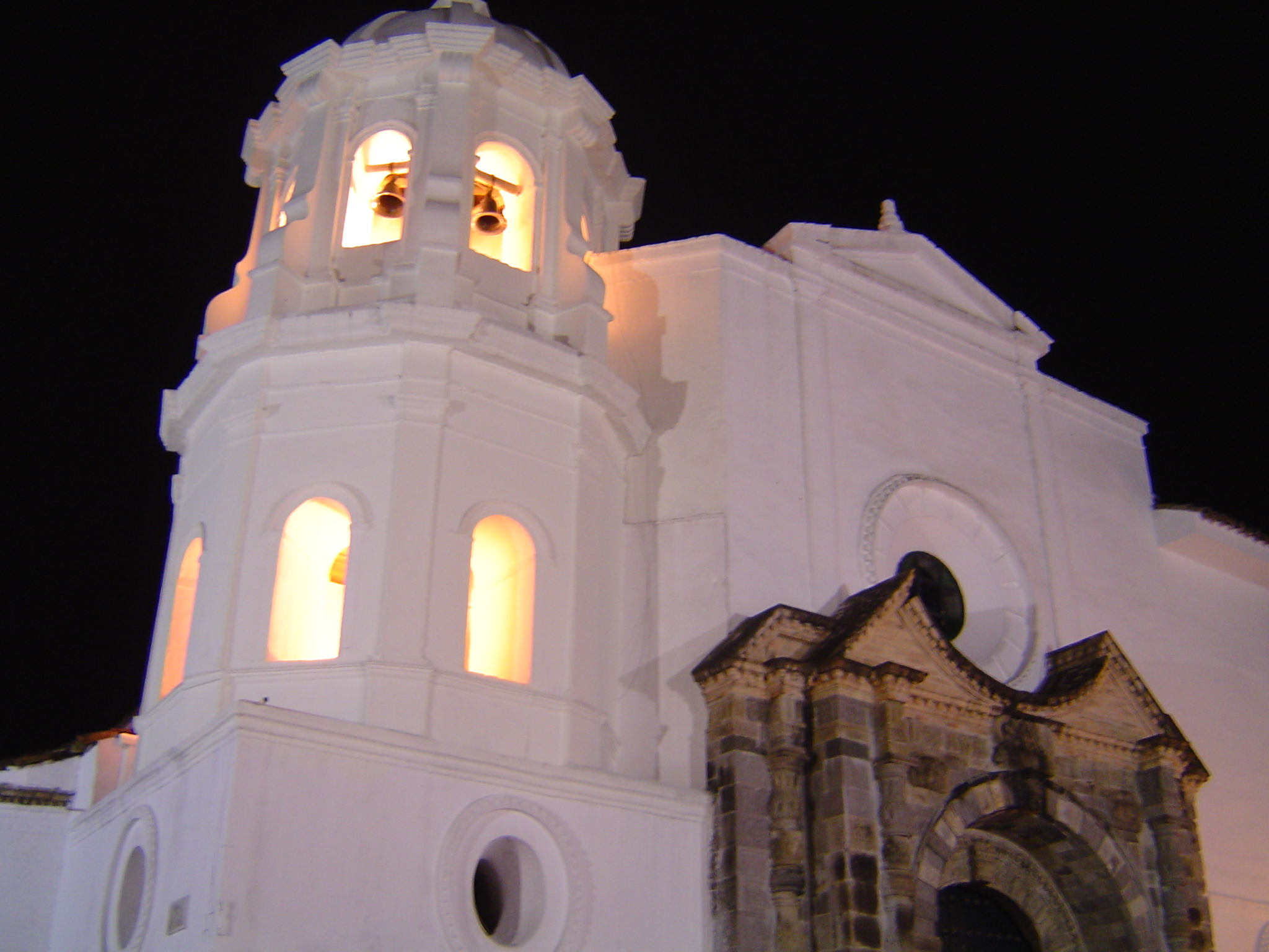 Church of Santo Domingo (Popayan, Colombia)